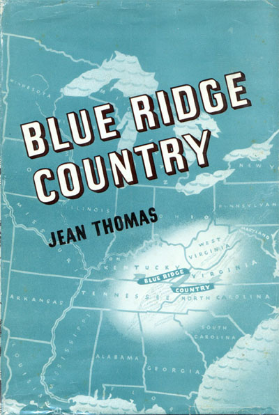 Blue Ridge Country - Jean Thomas - book cover